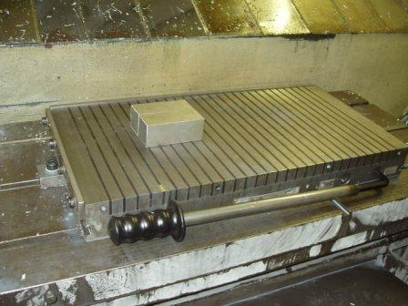 Permanent magnetic chuck